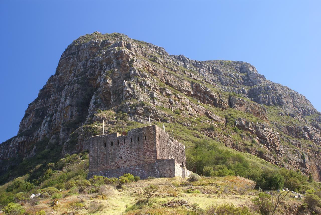 The King's Blockhouse on Mowbray Ridge of Devil's Peak, was built in 1796. The small fort was named after king George III, and could signal observations of ships in False Bay to blockhouses lower down. It is situated near Table Mountain in Cape Town, South Africa.[1][2]